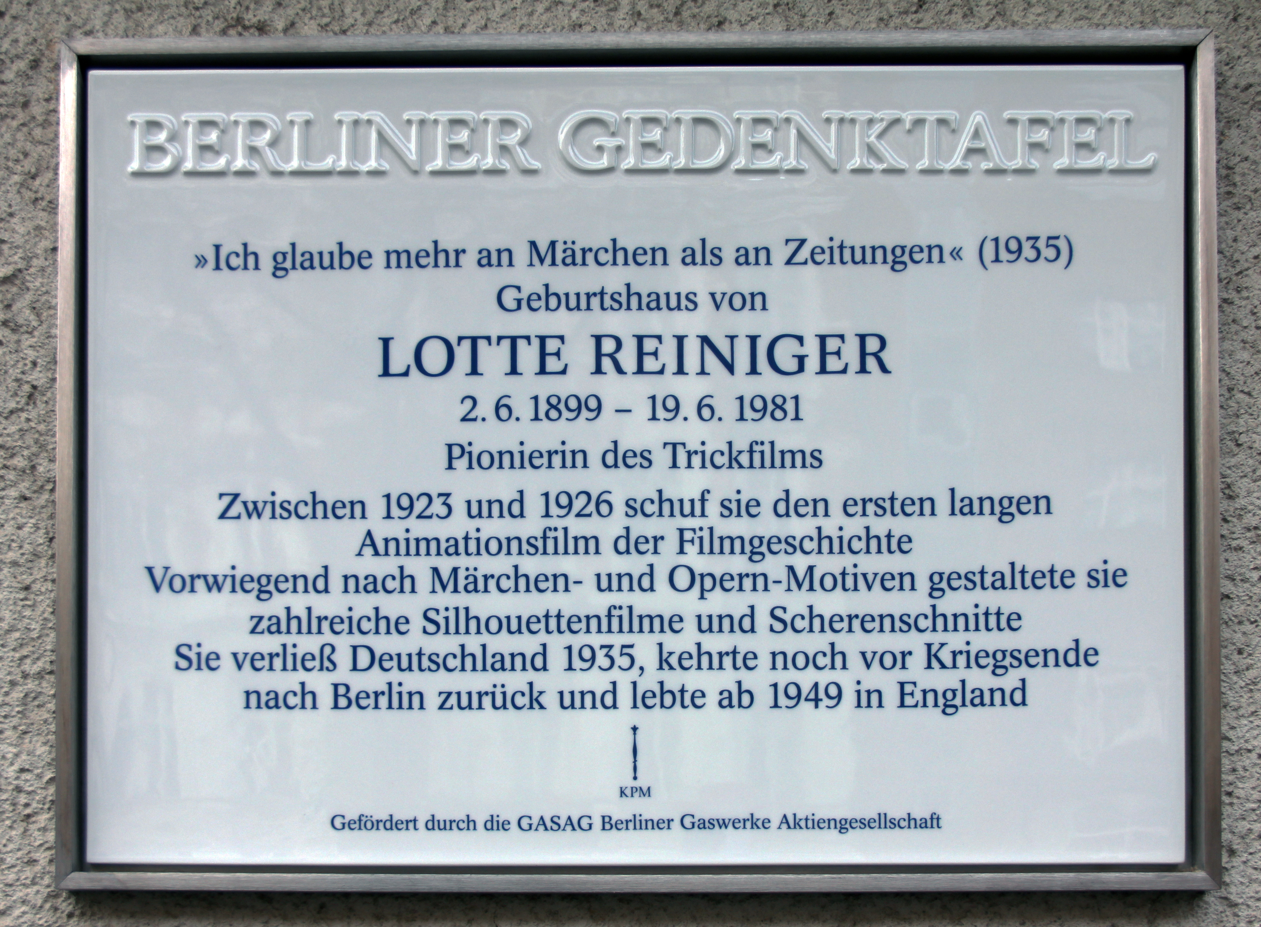 Berlin memorial plaque, Lotte Reiniger, Knesebeckstraße 11, Berlin-Charlottenburg, Germany